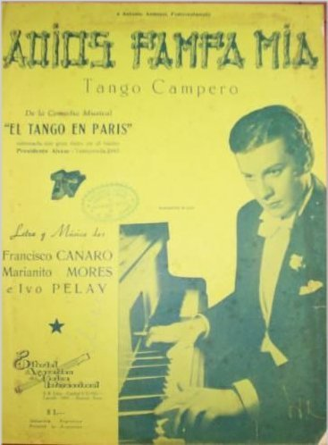 "Adios Pampa Mía". Partiture, Mariano Mores, Francisco Canaro, Ivo Pelay. Buenos Aires, 1945